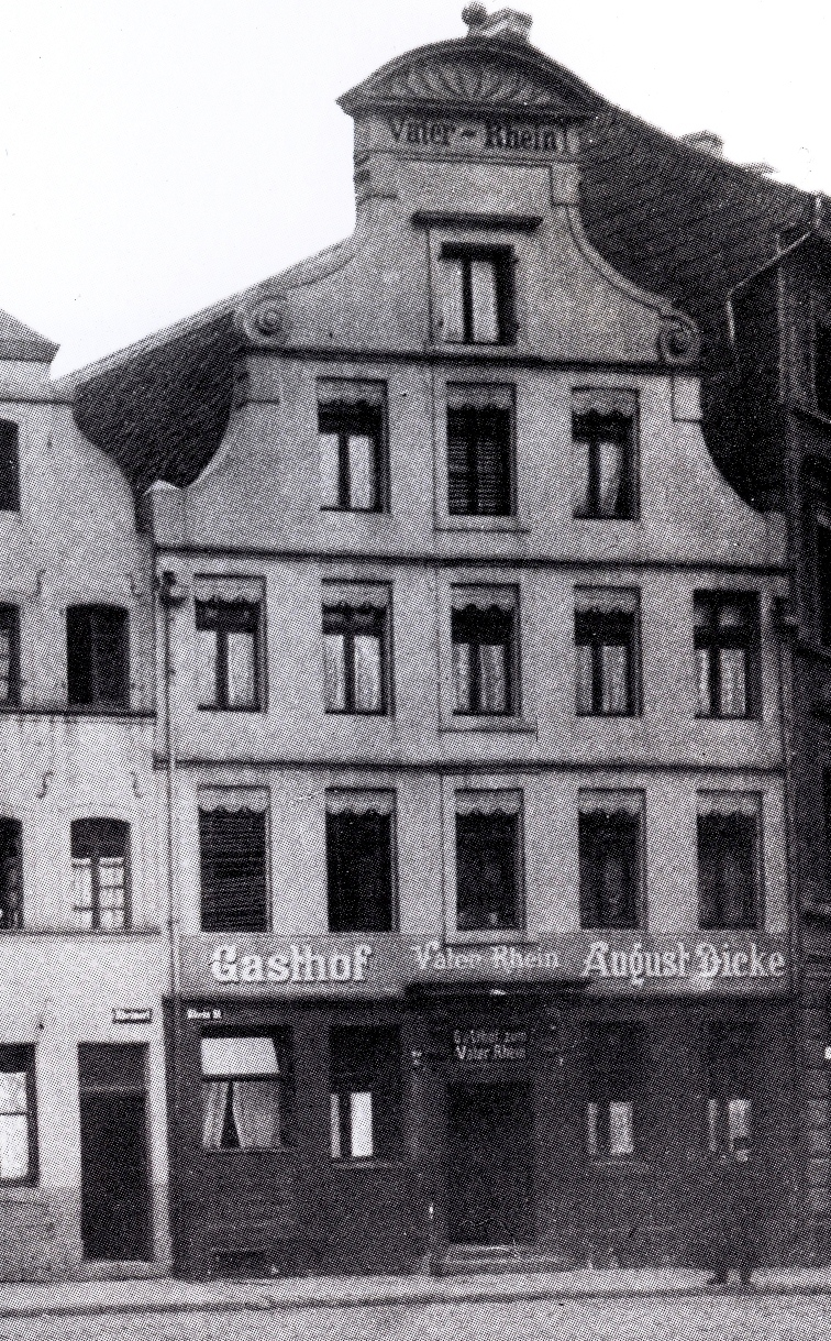 t